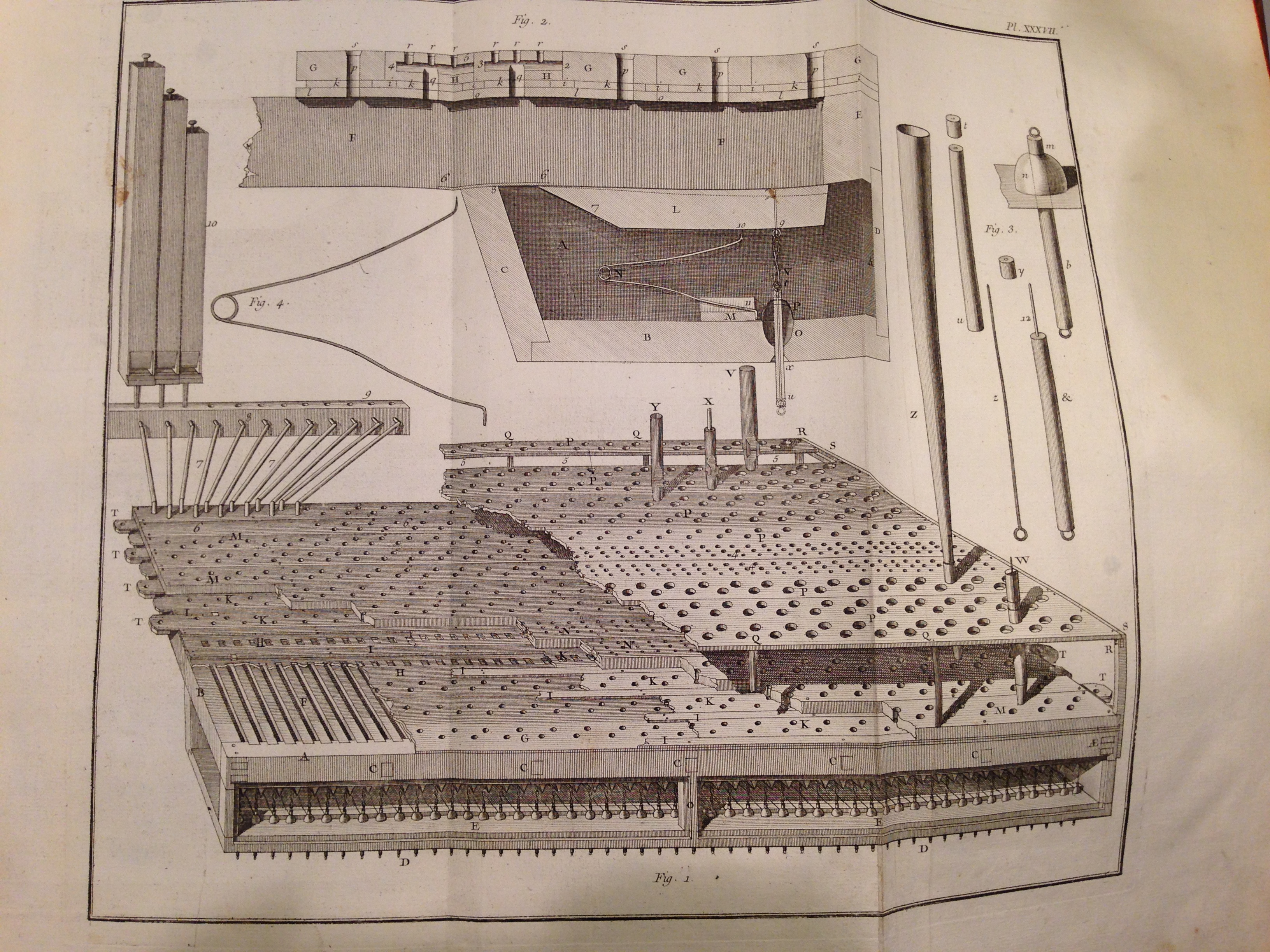 "L'art du facteur d'orgues" by François Bédos de Celles. Artwork from the book.